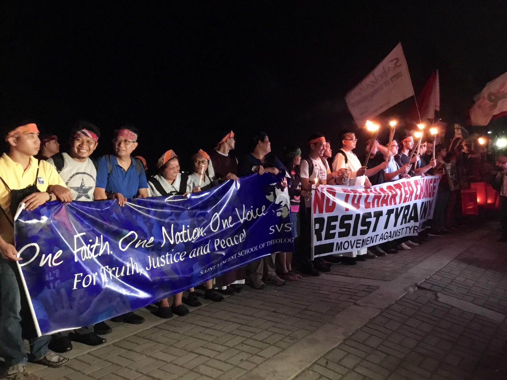 Mobilizationː One Faith, One Nation, One Voice